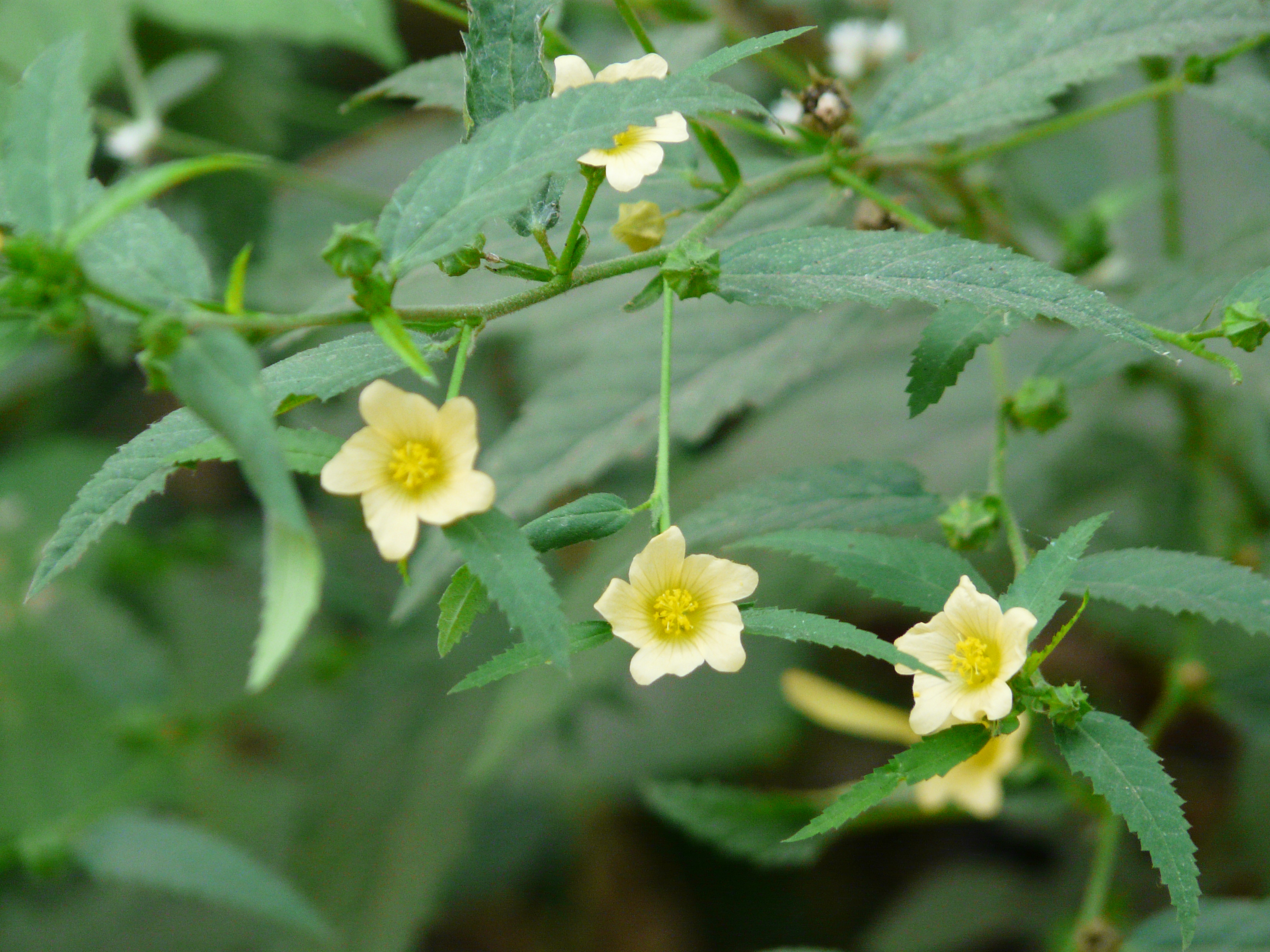 Malvaceae (mallow family) » Sida acuta SEE-duh -- in Greek, a type of water lily; although now a name for a type of mallow a-KEW-ta -- meaning, sharp angles; sharpened to a point commonly known as: common fanpetals, ironweed, southern sida, teaweed, wireweed • Hindi: महाबल mahabal • Kannada: ವಿಷಕಡ್ಡಿ vishakaddi • Malayalam: മഞ്ഞക്കുറുന്തൊട്ടി maannakkurgunthotti • Marathi: बल bala, चिकना chikna, जंगली मेथी jungali methi, पाटा pata • Sanskrit: बल bala, पट्ट patta • Tamil: பொன்முசுட்டை ponmucuttai, வட்டத்திருப்பி vattatirippi • Telugu: నేల బెండ nela benda, విషబొడ్డి visah-boddi Native to: pantropical ~ Central America References: Flowers of India • PIER species info • Forest Flora of Andhra Pradesh